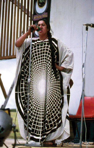 Image (photograph) taken by Official Nambassa Photographer and uploaded by User:Mombas, Nambassa dot com Terms of Use: 1/ All users of this image are required to attribute this work to "Nambassa Trust and Peter Terry" and the URL: " " is to accompany all use. 2/ Attribution. You must attribute the work in the manner specified by the author or licensor. 3/ For any reuse or distribution, you must make clear to others the license terms of this work. Statement by Nambassa Trust and Peter Terry